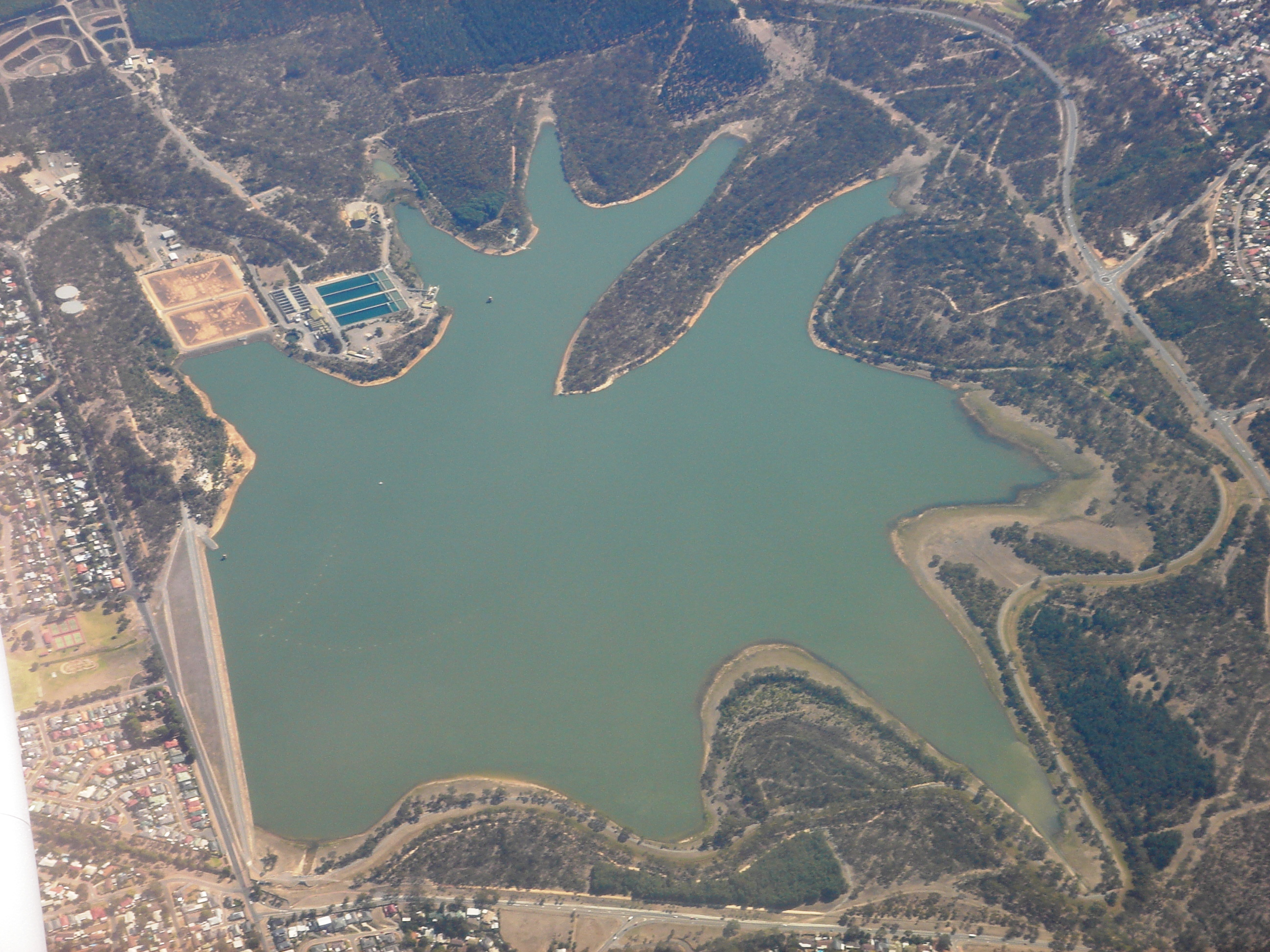 Aerial photo of Happy Valley Reservoir, South Australia. Commercial flight.